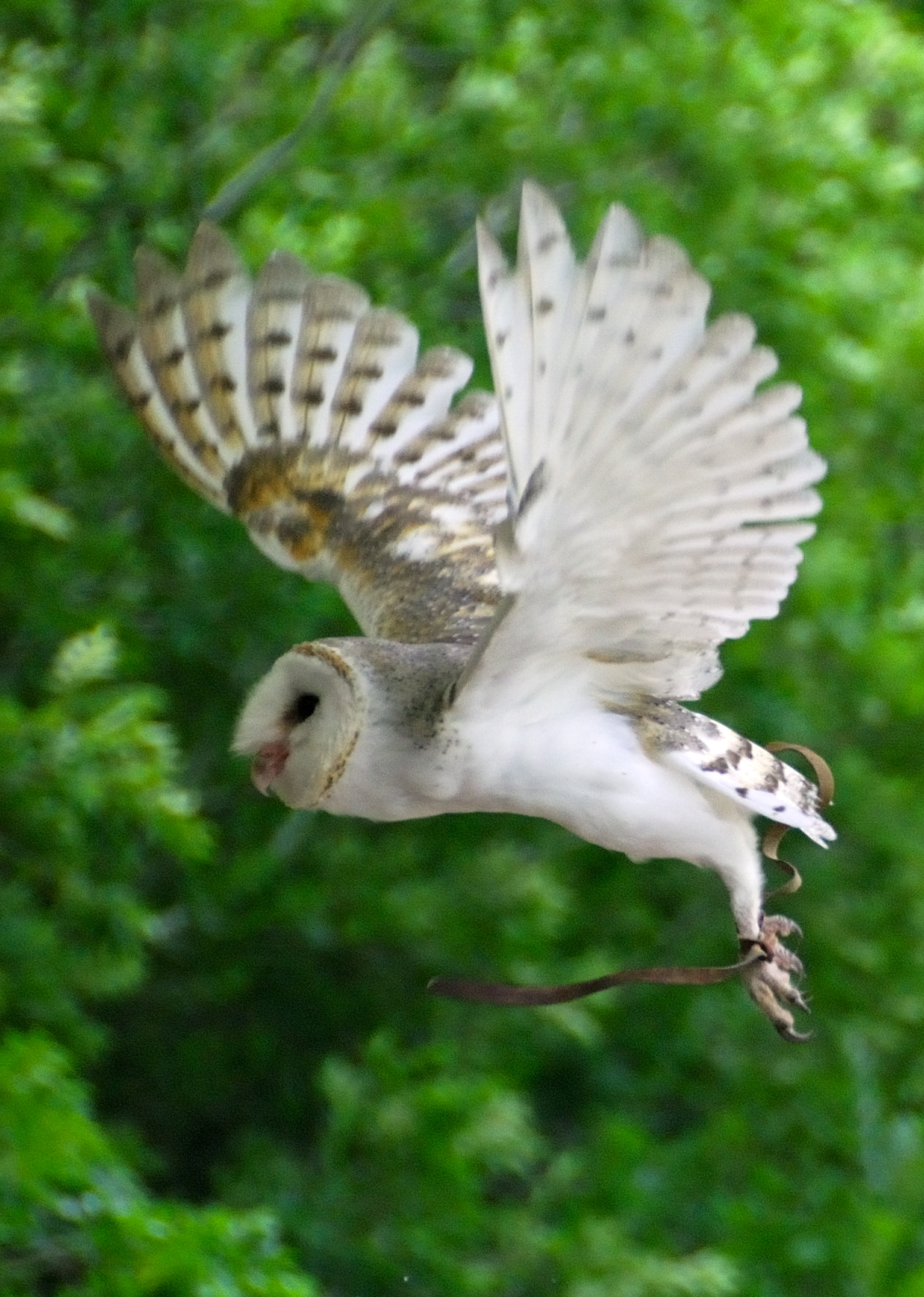 Barn Owl in flight at Lone Pine Koala Sanctuary